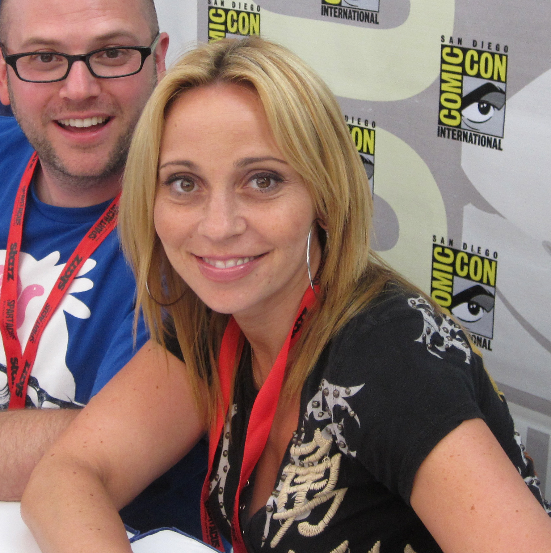 Actress and voice artist Tara Strong, with cartoonist C.H. Greenblatt, at San Diego Comic-con, July 23, 2009.